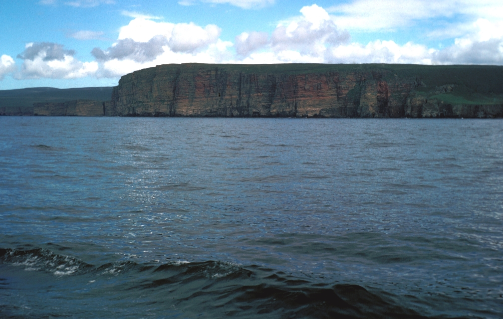 Orkney Islands seen from Pentland Firth on 22 Jul 1972. Picture taken and uploaded by Roger McLassus.